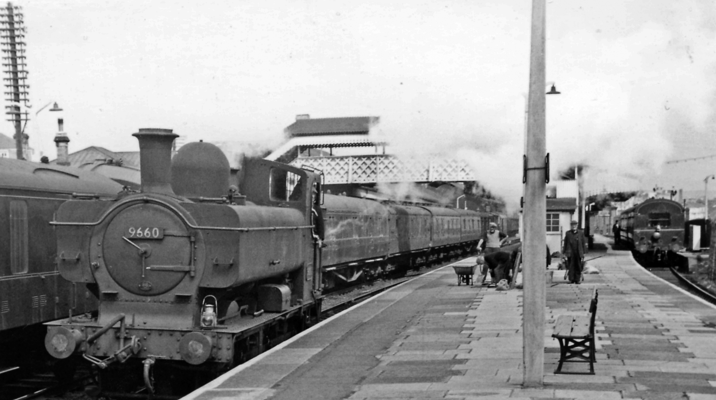 Bridgend Station, with 0-6-0PT. View northward, towards Port Talbot, Swansea etc.: ex-GWR South Wales main line, junction of line from Cardiff via Barry and of branches up Llynvi, Ogmore and Garw Valleys. A long Parcels train stands at the Down platform and '8750' class 0-6-0PT No. 9660 (built 12/46, withdrawn 11/64) passes on the Up Main.